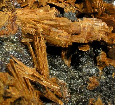 Santabarbaraite pseudomorph after Vivianite Locality: Kerch peninsula (Kertch peninsula), Crimea peninsula, Crimea Oblast', Ukraine (Locality at ) Size: small cabinet, 7 x 6.5 x 4.5 cm Santabarbaraite ps. Vivianite It is easy to discern that these were once vivianite crystals by their bladed nature, some doubly terminated and 3.0 cm in length. They are now turned to a burnt-umber color by santabarbaraite, a rare hydrated iron phosphate. A truly unusual pseudomorph! Very few of these were recovered in a series of phosphate pods mined through in the 1990s. I have seen several dozen good Santabarbaraite specimens out of LITERALLy thousands of vivianites and dozens of specimens of anapaite from here. This is, truly, uncommon. And, best of species, I am told.